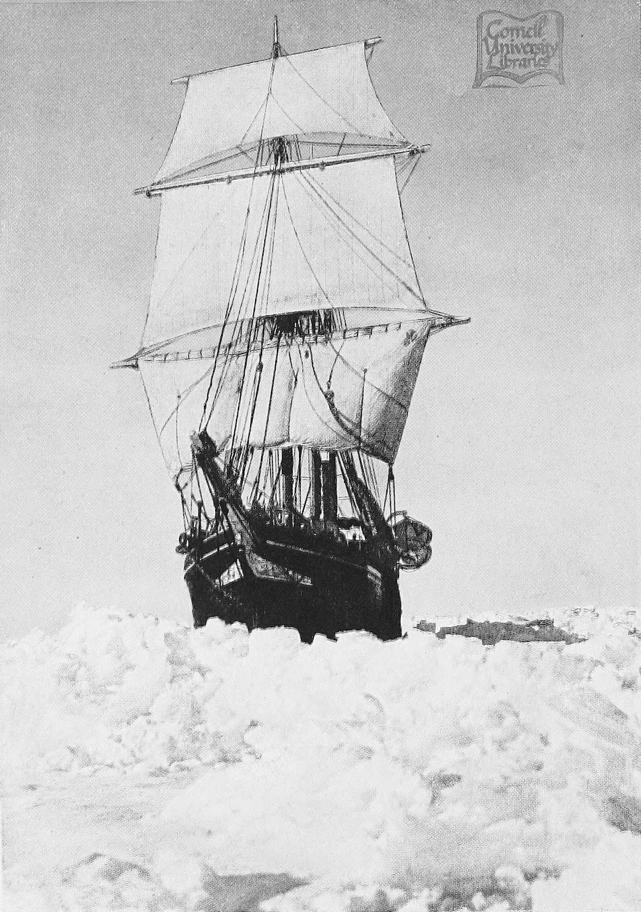 Frontispiece from South: the story of Shackleton's last expedition.